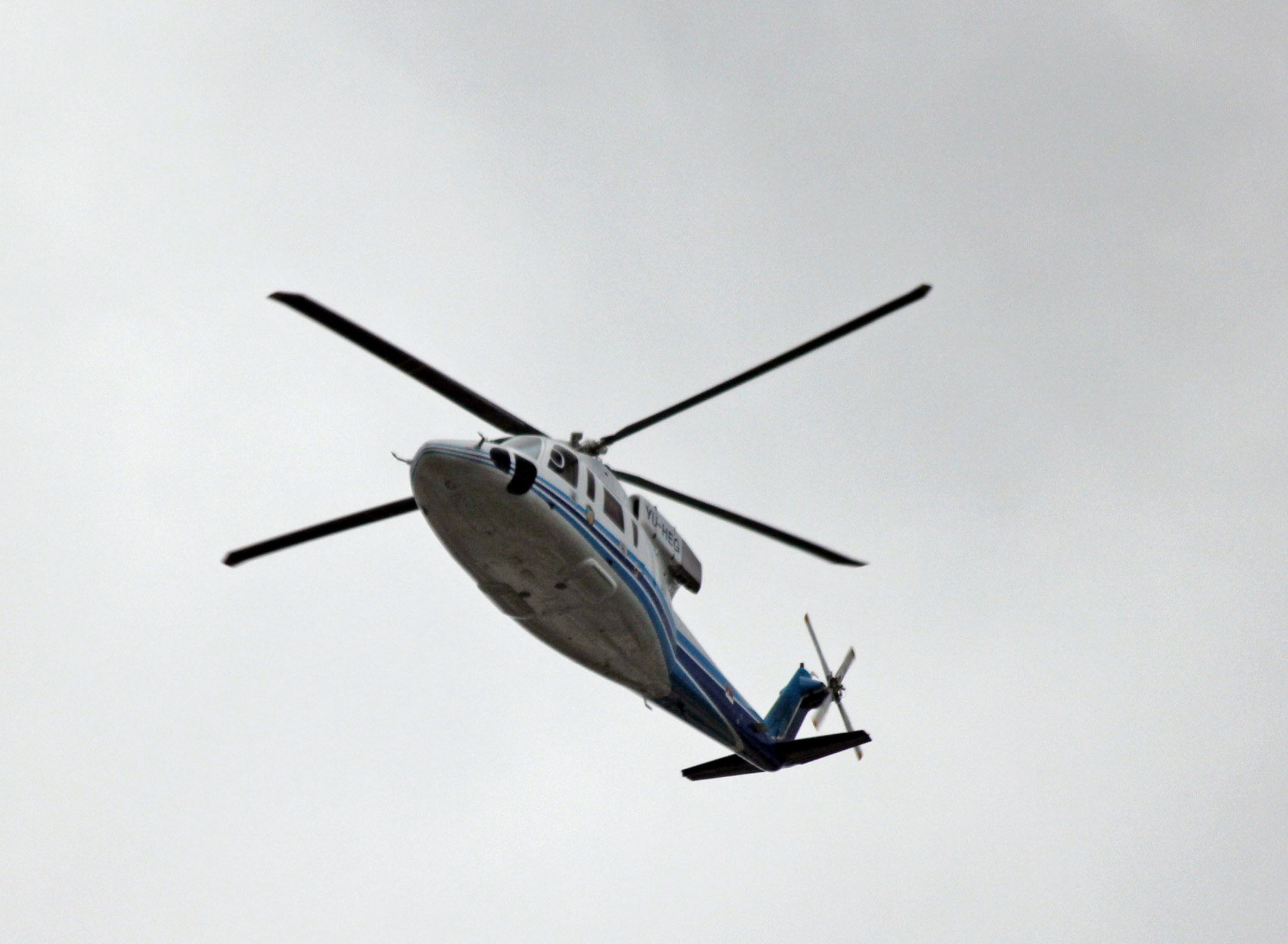 Serbian police Sikorsky S-76 helicopter at military parade in Niš.